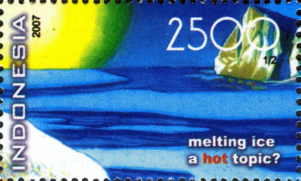 Stamps of Indonesia